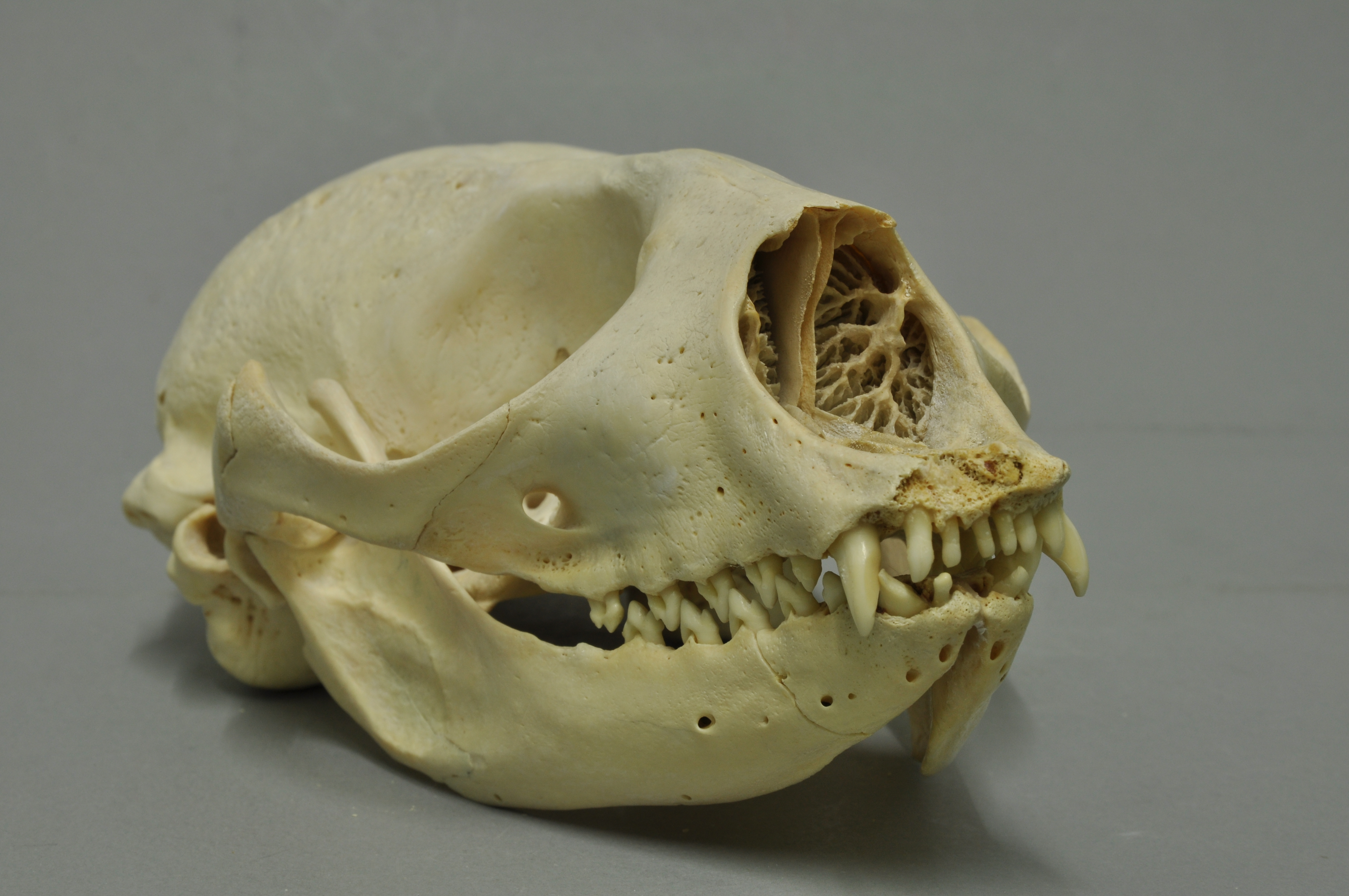 Harp seal Pagophilus groenlandicus, skull, Coll. Museum Wiesbaden